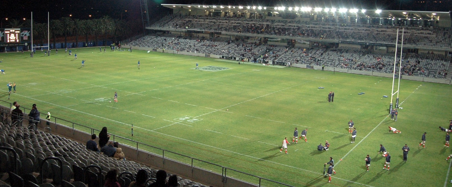 Photograph of Blue Tounge Stadium during the Tonga vs. Samoa Pacific Nations Pre-match warmup.